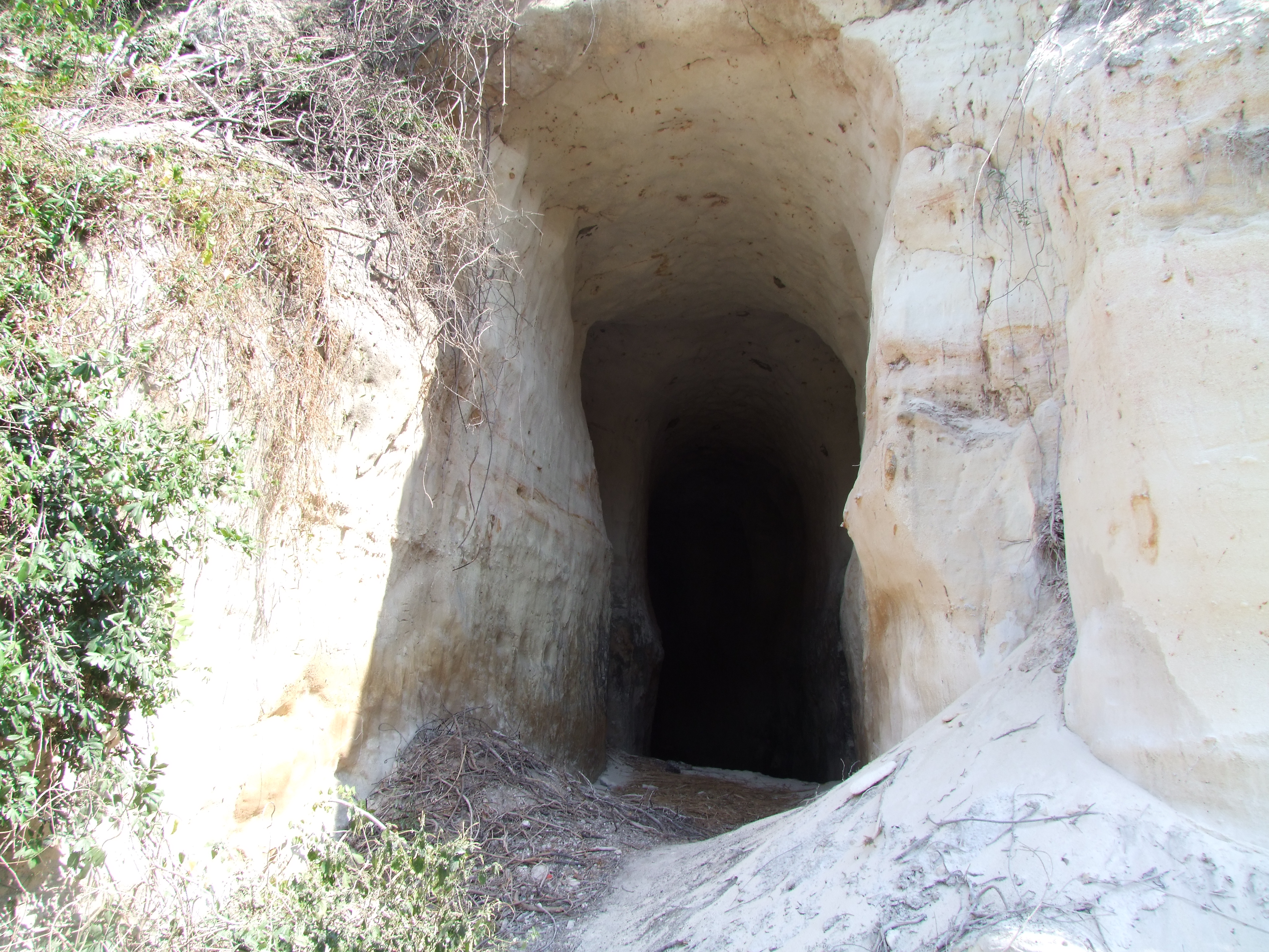 Former German kaolinite mine at Pugu Hills Forest Reserve now inhabited by bats